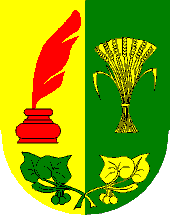 Coat of arms of Hněvčeves (city in Czechia)